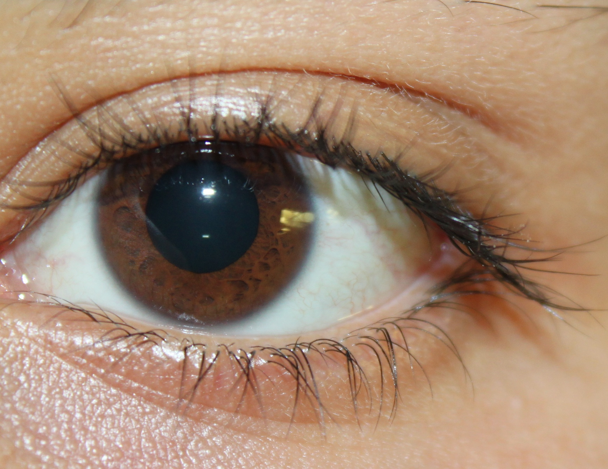 picture of brown eyes